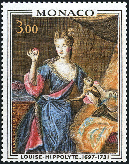 Stamp of Louise Hippolyte of Monaco (original painting in the Palace of Monaco)